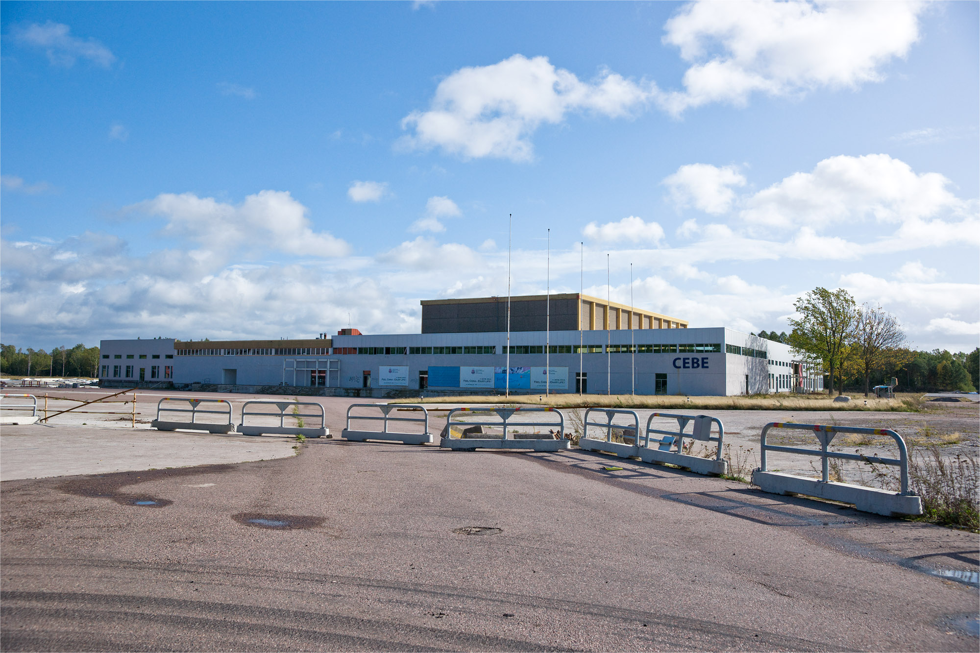 Photograph showing the China Europe Business & Exhibition Center complex in Kalmar.